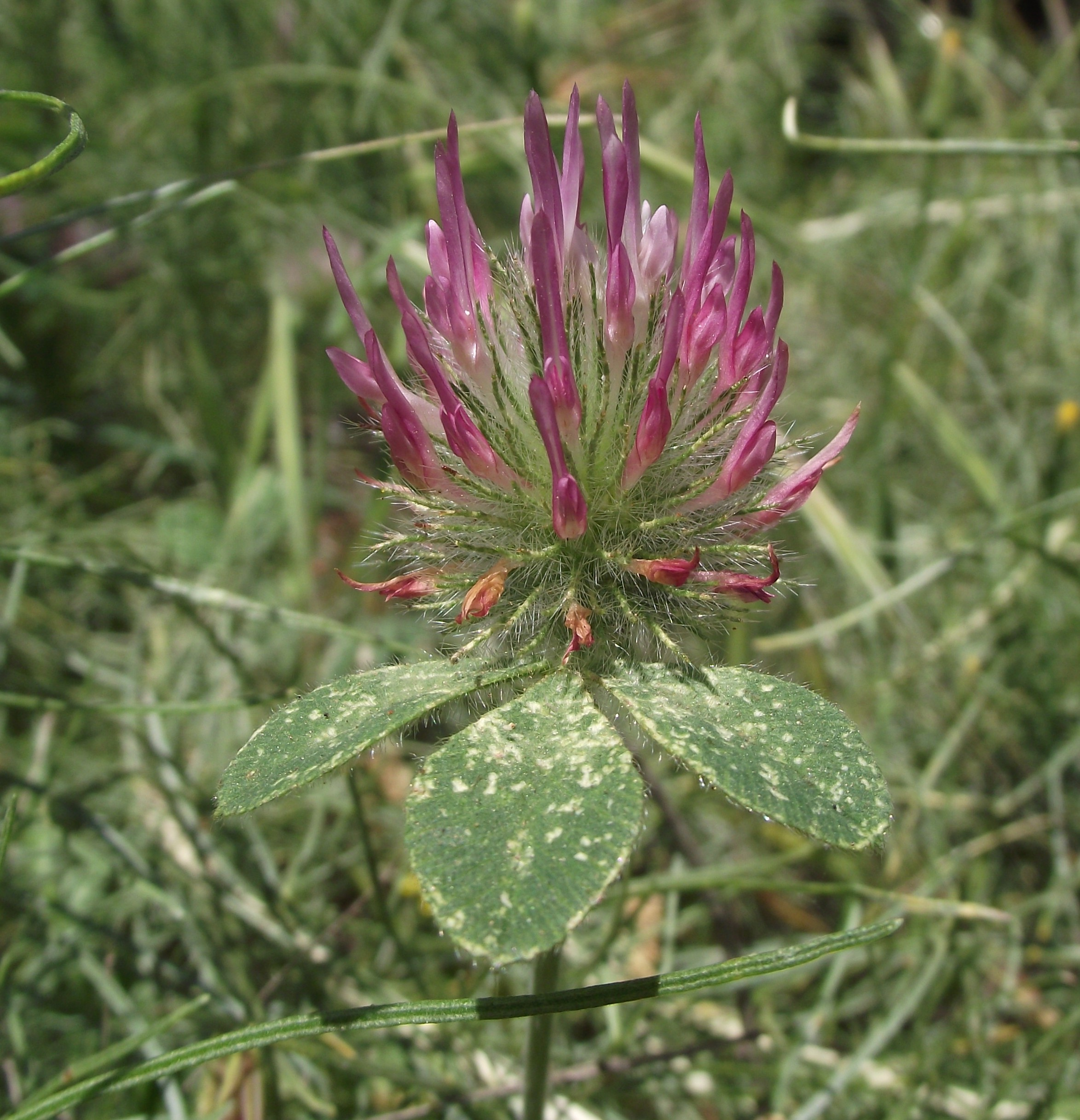 Trifolium hirtum — Rose clover, an introduced species. At the Blue Sky Ecological Reserve in the Laguna Mountains, Poway, California.